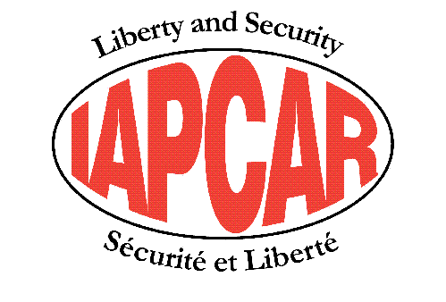 Source: [1] Logo for International Association for the Protection of Civilian Arms Rights, simply composed of text. Copyright thus is not afforded, but trademark protection is in force.